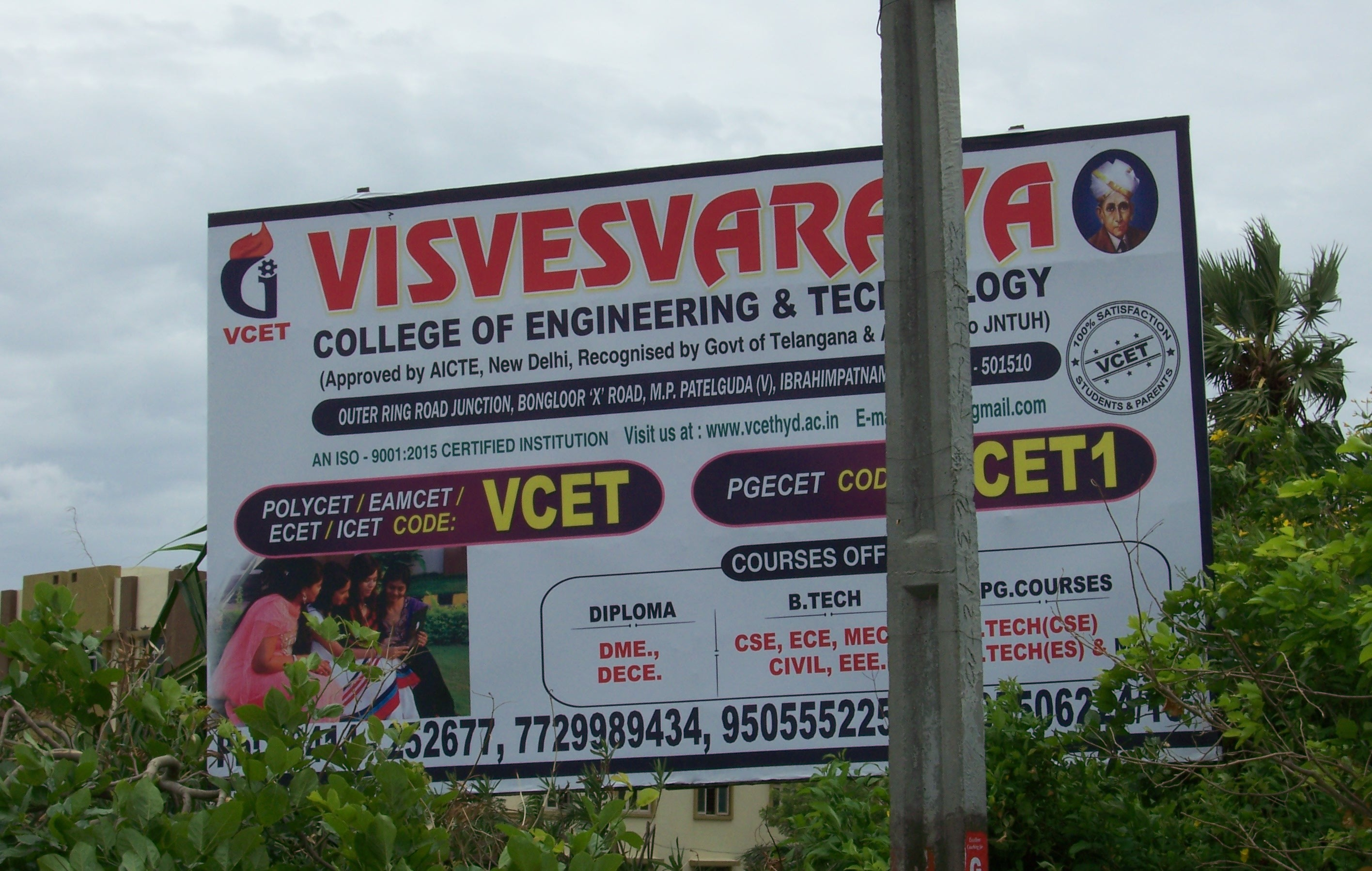 Visvesvaaraya engg. college, b